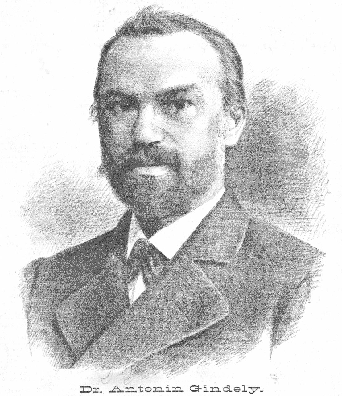 Portrait of Anton Gindely (1829 - 1892), Bohemian historian writing in German.